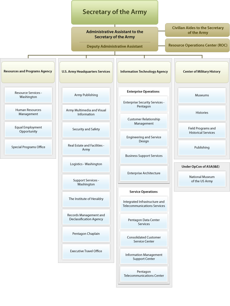 Organizational chart for the Office of the Administrative Assistant of the Secretary of the Army, HQDA, United States Army.